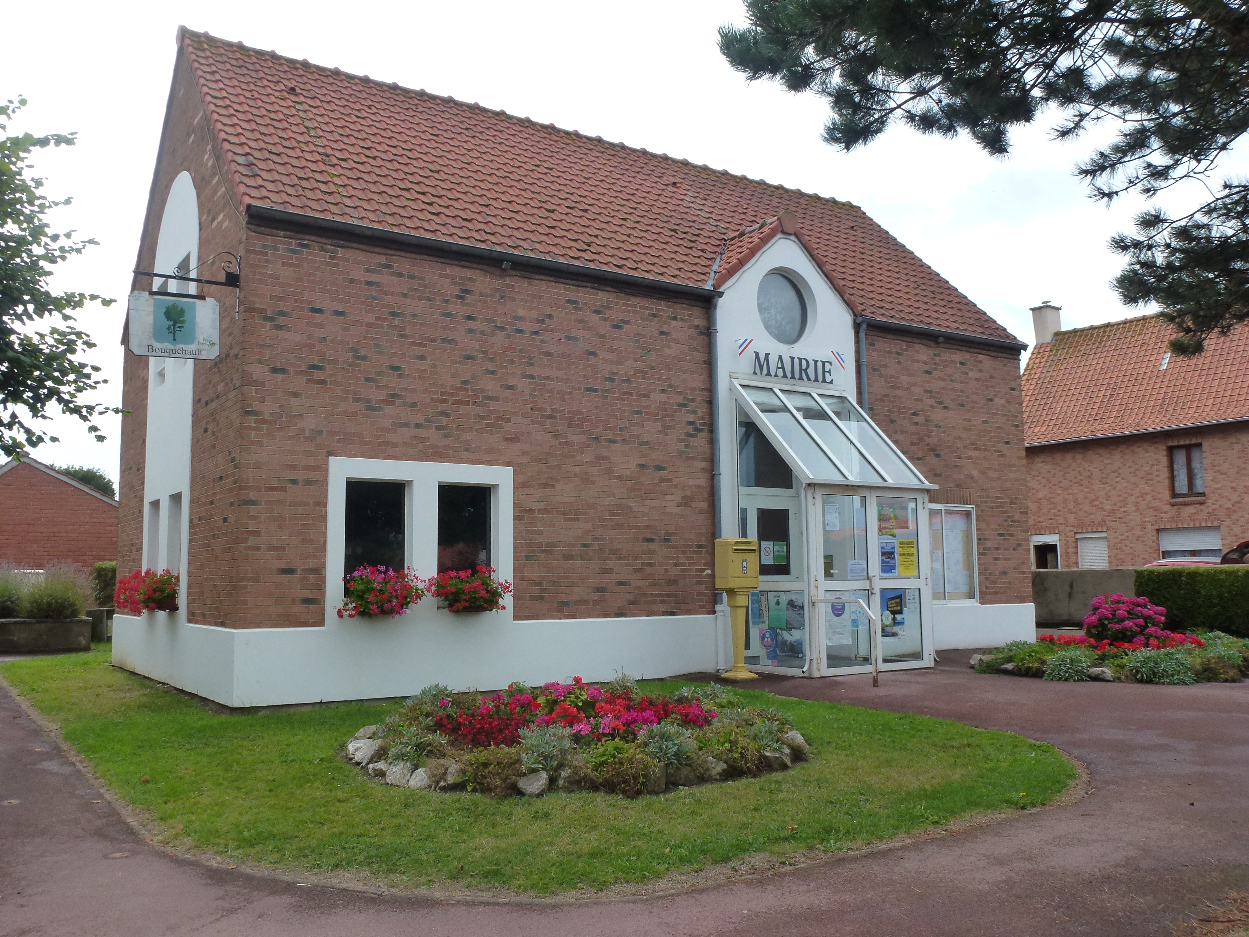 Bouquehault (Pas-de-Calais) mairie